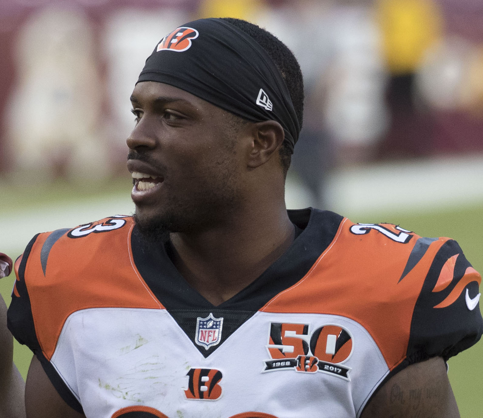 Cincinnati Bengals cornerback, Bené Benwikere, at a preseason game against the Washington Redskins on August 27, 2017.